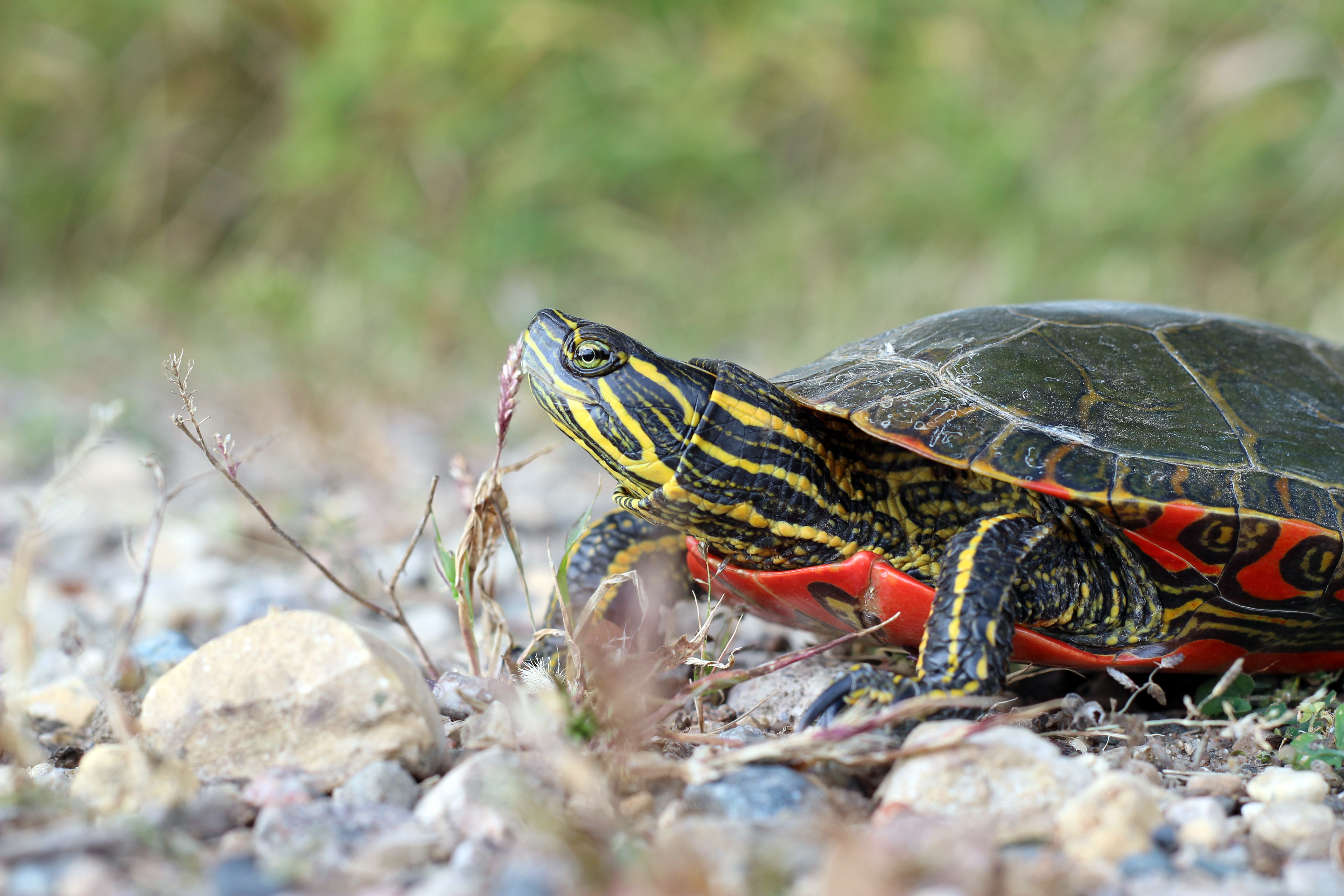 Photo by Courtney Celley/USFWS.